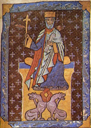 Alfonso V of León